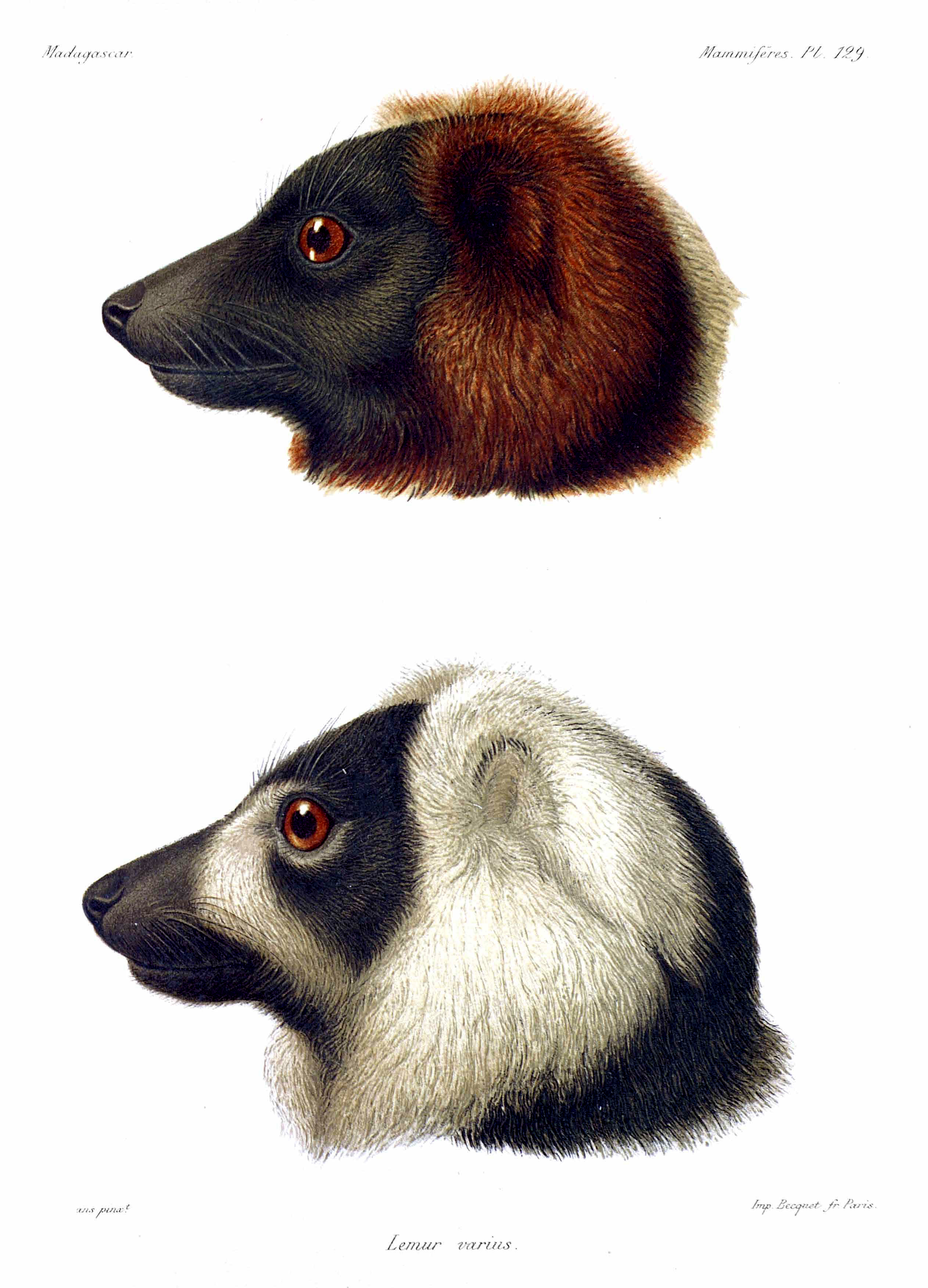 Ruffed lemur profiles: red ruffed lemur (Varecia rubra) on top, black-and-white ruffed lemur (Varecia variegata) on bottom.